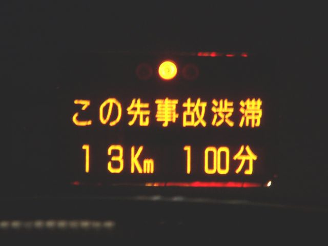 Congestion sign in Japan.